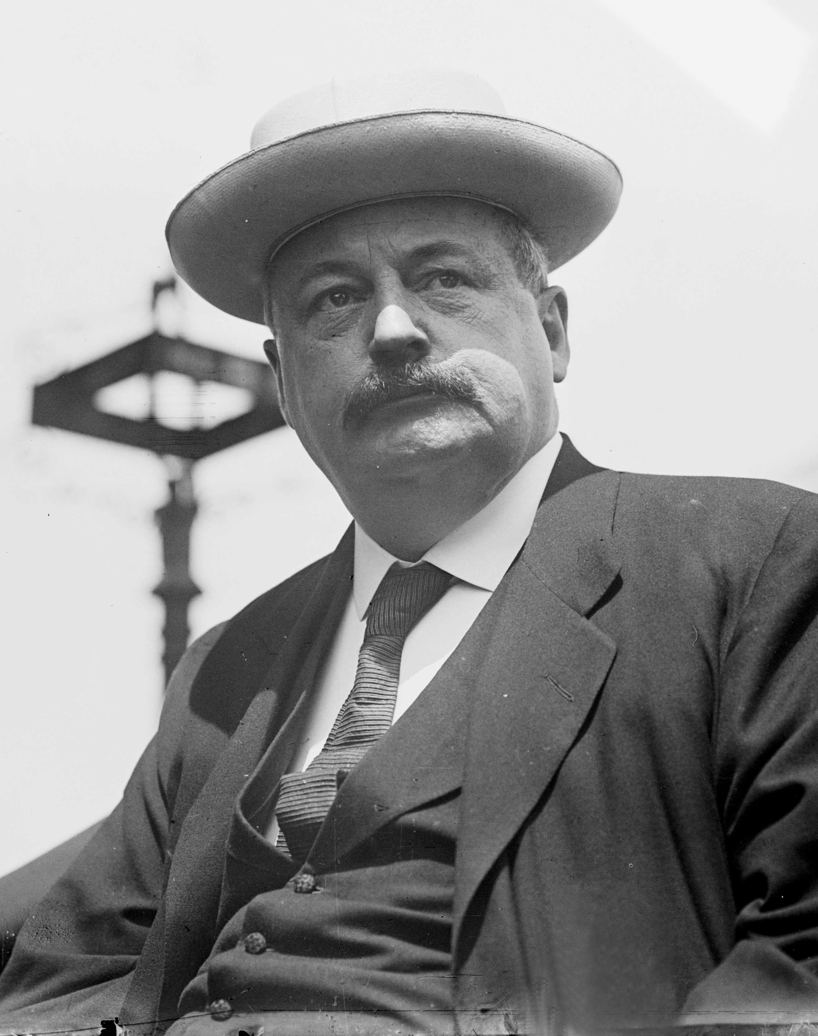 Boies Penrose (1860 – 1921), American lawyer and Republican politician